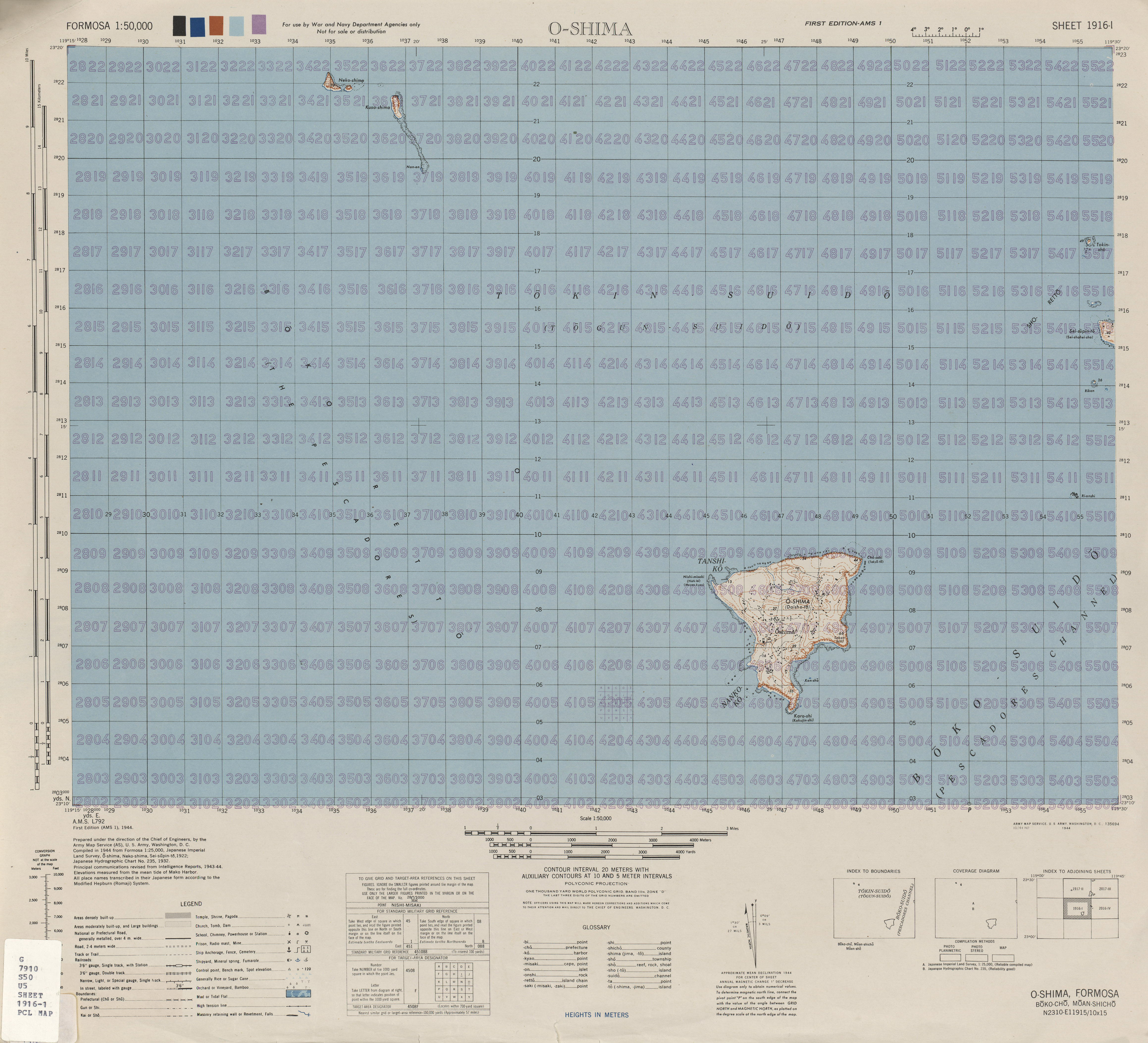 Map of Cimei/Qimei (Ō-shima), Penghu, Taiwan area from Series L792